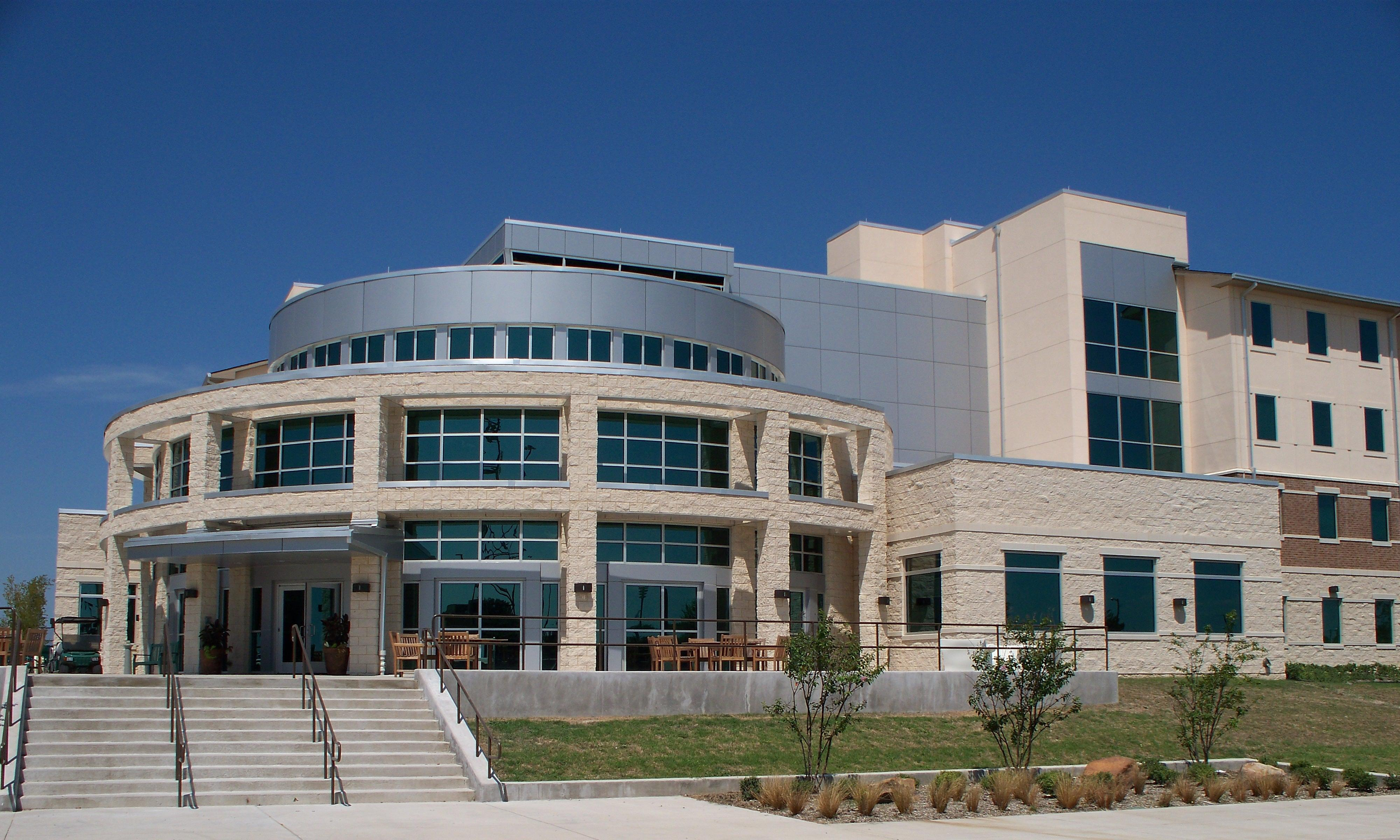 UT Dallas Residence Hall South. A 148,000-square-foot (13,700 m2) residence hall providing housing for 384 full-time freshmen residents. The residence hall offers living learning environments that group students with similar interests and majors. The building includes a mix of three-bedroom, single-bath suites for freshmen and one-bedroom, one-bath units for peer advisers. On each wing and each floor are several communal study areas, and the ground floor features a 1,800-square-foot (170 m2) glass-enclosed rotunda with pool and ping-pong tables, a large-screen television, couches and chairs. The building also has two classrooms for freshmen-level classes.